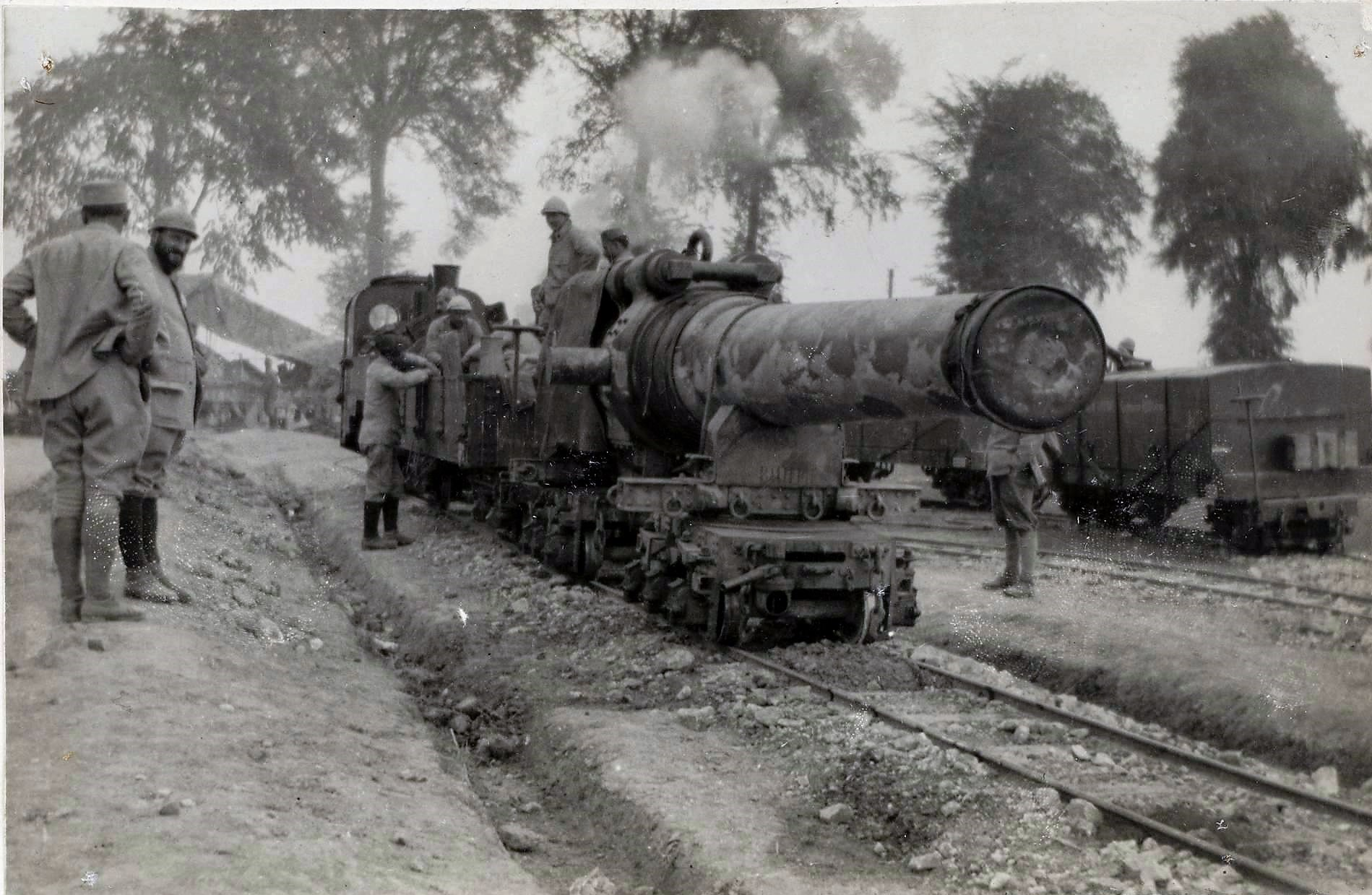 Sur le front de la Somme. Transport de pièces lourdes par chemin de fer Decauville.